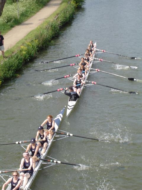 Oriel Women's Second Eight bump Magdalen Women's Second Eight in Eights Week, 2005. Taken from Donnington Bridge.